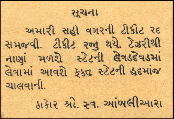 Ambliara State banknote, verso